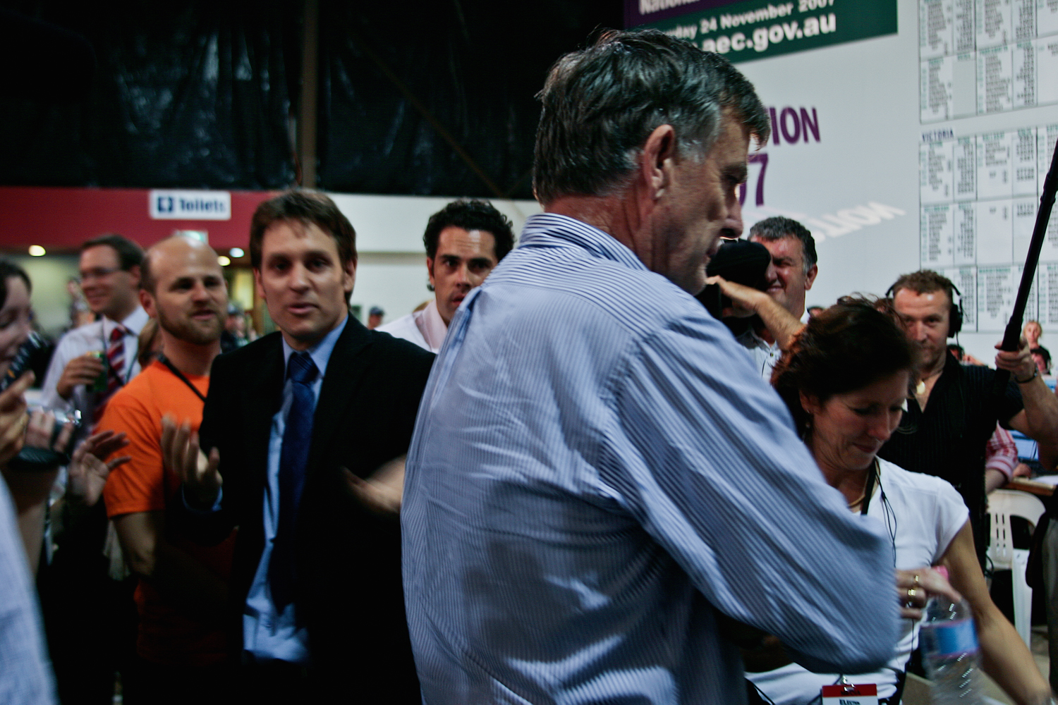 The Chaser member Craig Reucassel being pushed by Australian Senetor Bill Heffernan. It is election night in the National Tally Room (Canberra) for the 2007 Australian Federal Election.